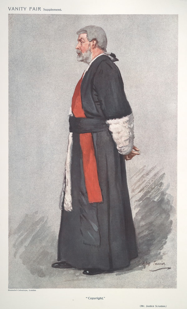 Caricature of Thomas Edward Scrutton (1856-1934). Caption read "Copyright".